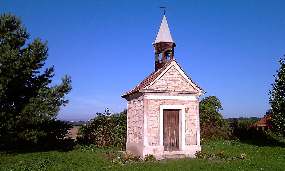 Little chapel in village Selibice near Zatec, Czech Republic